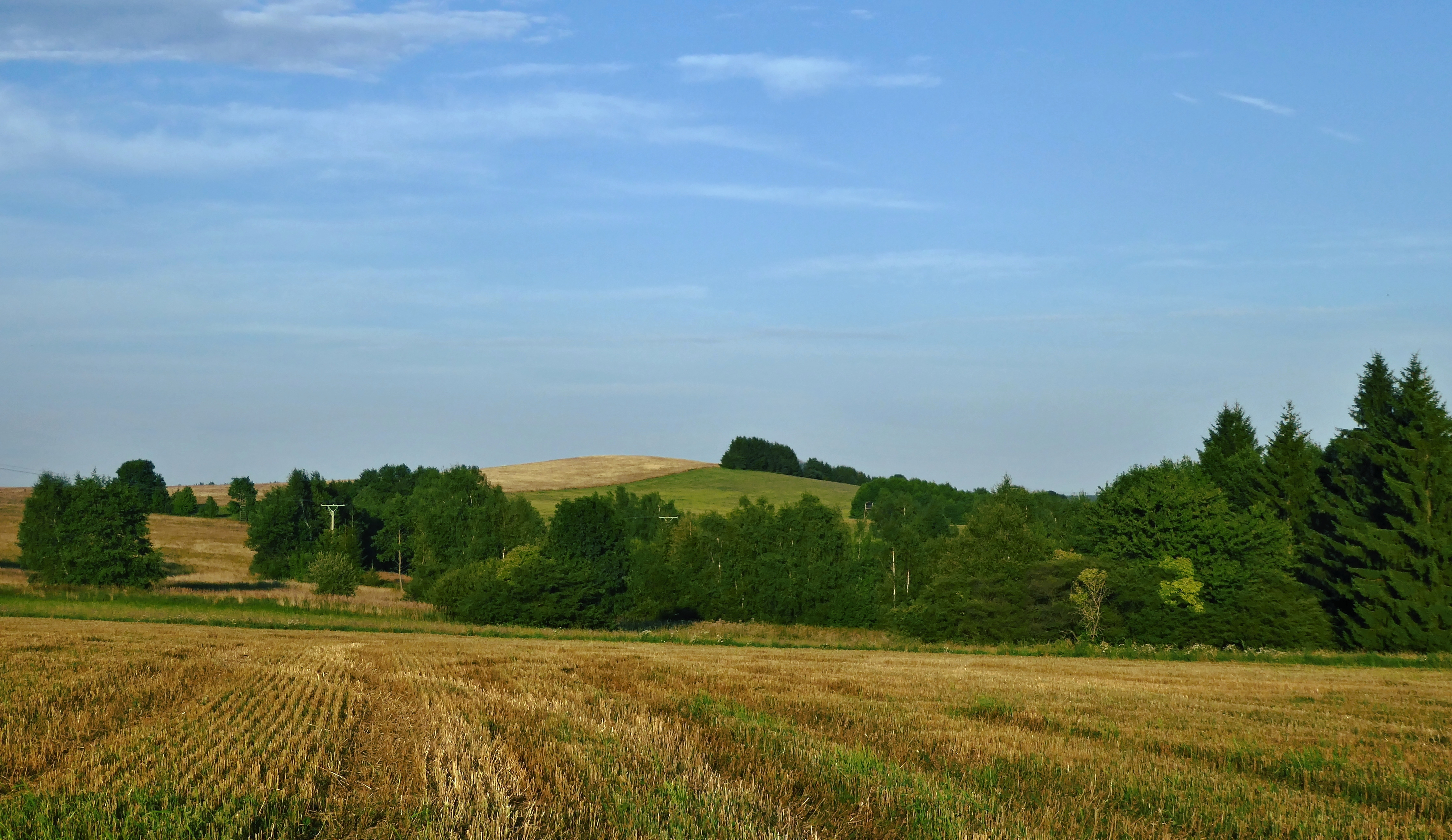 The peak of hill "U oběšeného" (737.4 m), a view of the hill from the west, from the fields above the village of Chlumětín (the hill in the middle of the photo). Under the peak part of the springfield "Chlumětínský" brook, locality of "Kameničská" highlands in the Protected Landscape Area "Žďárské" hills. Within the regional division of the Czech Republic's georelief lies the highest peak of the Iron Mountains in the southeast part of the mountain range with called Sečská vrchovina, in the geomorphological district Kameničská vrchovina. The hill is located in the cadastral area Svratouch in the Chrudim District, belong to the Pardubice Region in the Czech Republic. Photo-location: Czechia, Vysočina Region, the village of Chlumětín.